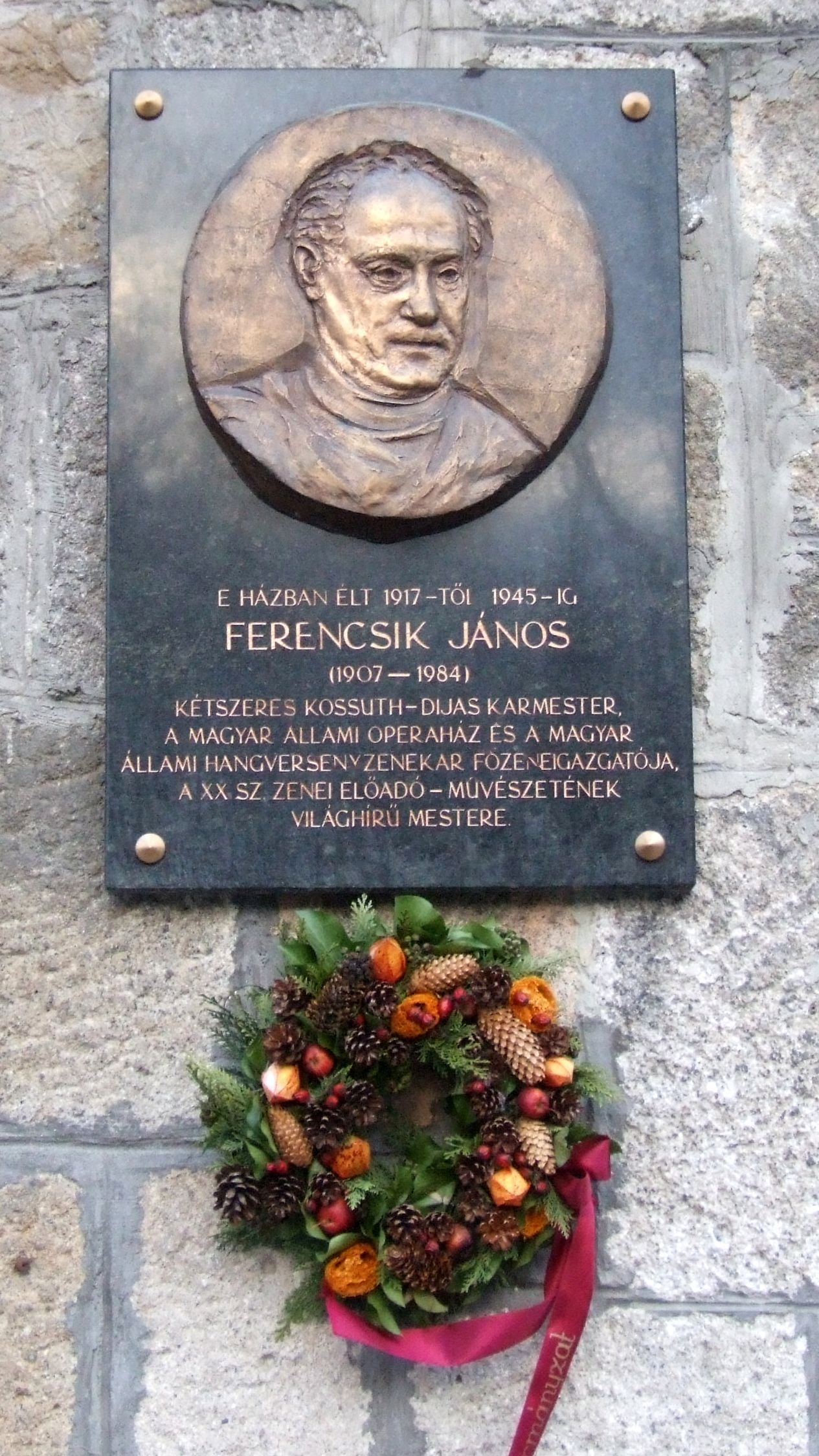 János Ferencsik commemorative plaque with relief in Budapest District I, Attila Street No 107. Creator: János Krasznai.